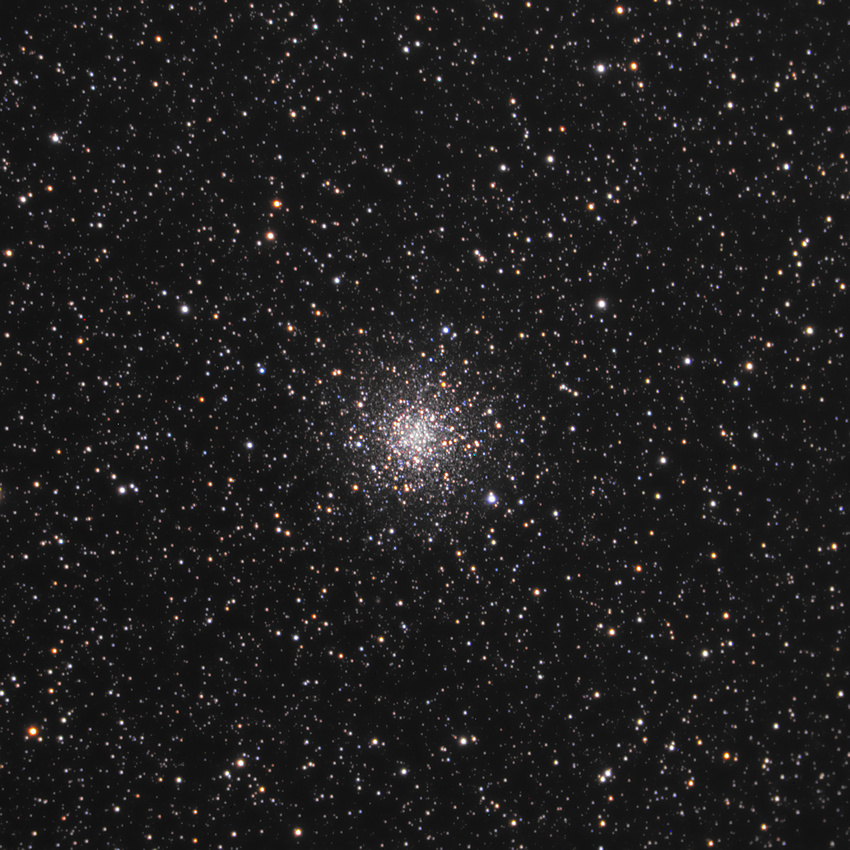 Globular Cluster Messier 56 in Lyra